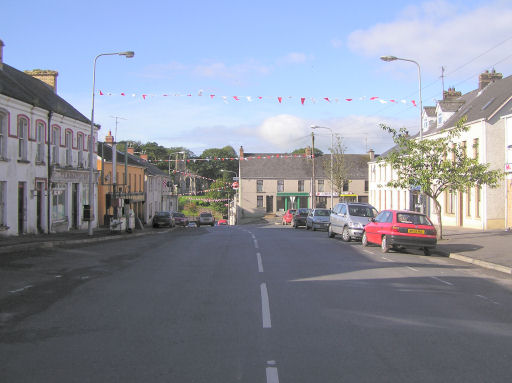 Sixmilecross, County Tyrone. Sixmilecross is said to have got its name from a Celtic Cross that stood in a field at the top of the village and also from its distance of six Irish miles from Omagh. The village, which is marked by a wide, tree lined main street, has a population of approximately 270.